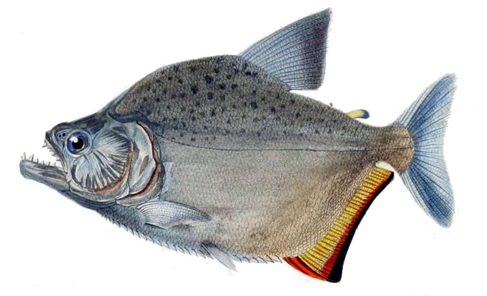 « Serrasalmus marginatus » = Serrasalmus marginatus